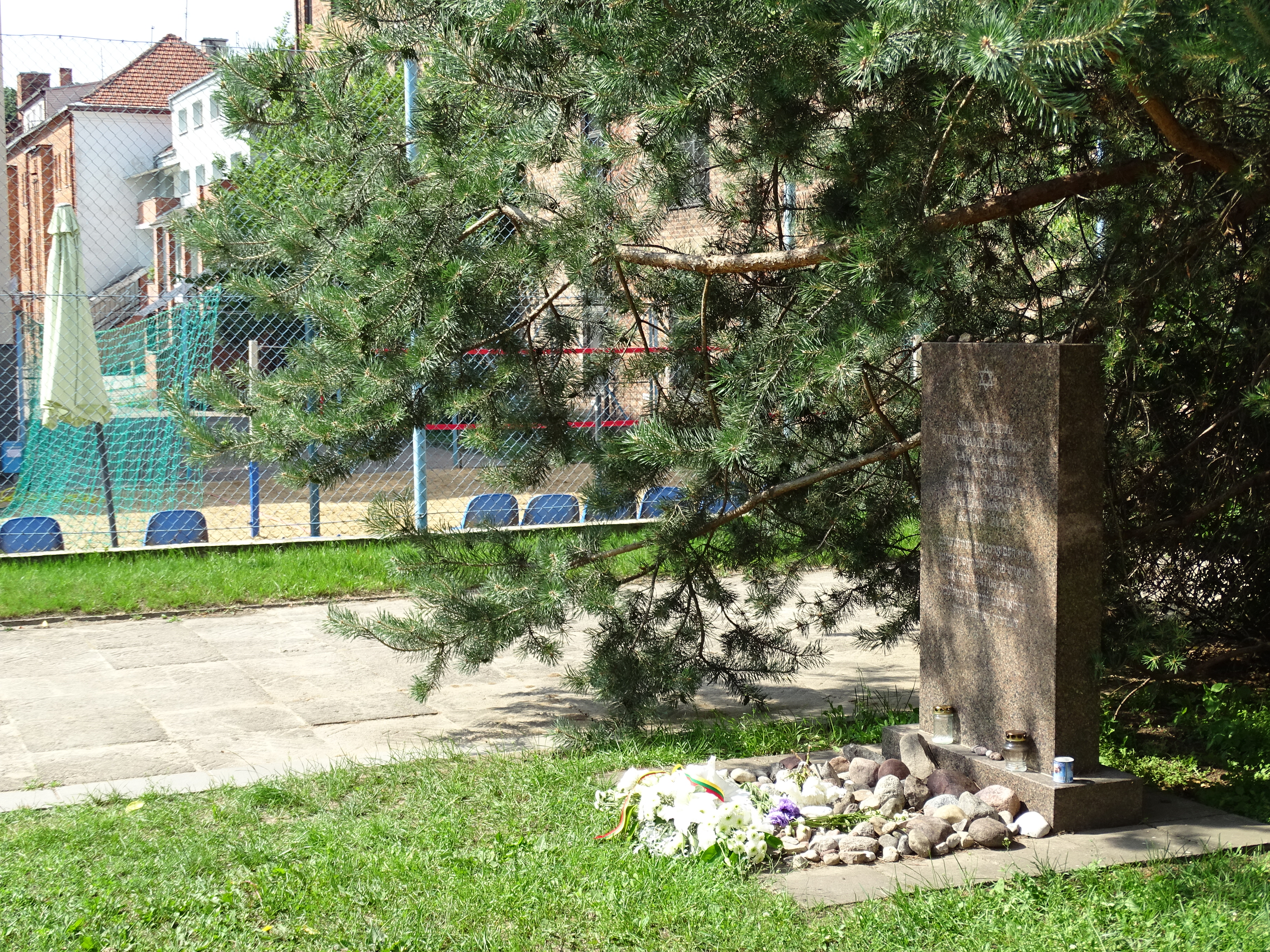 Memorial at Site of Lietukis Garage Massacre of Jewish Men - Kaunas - Lithuania - 02